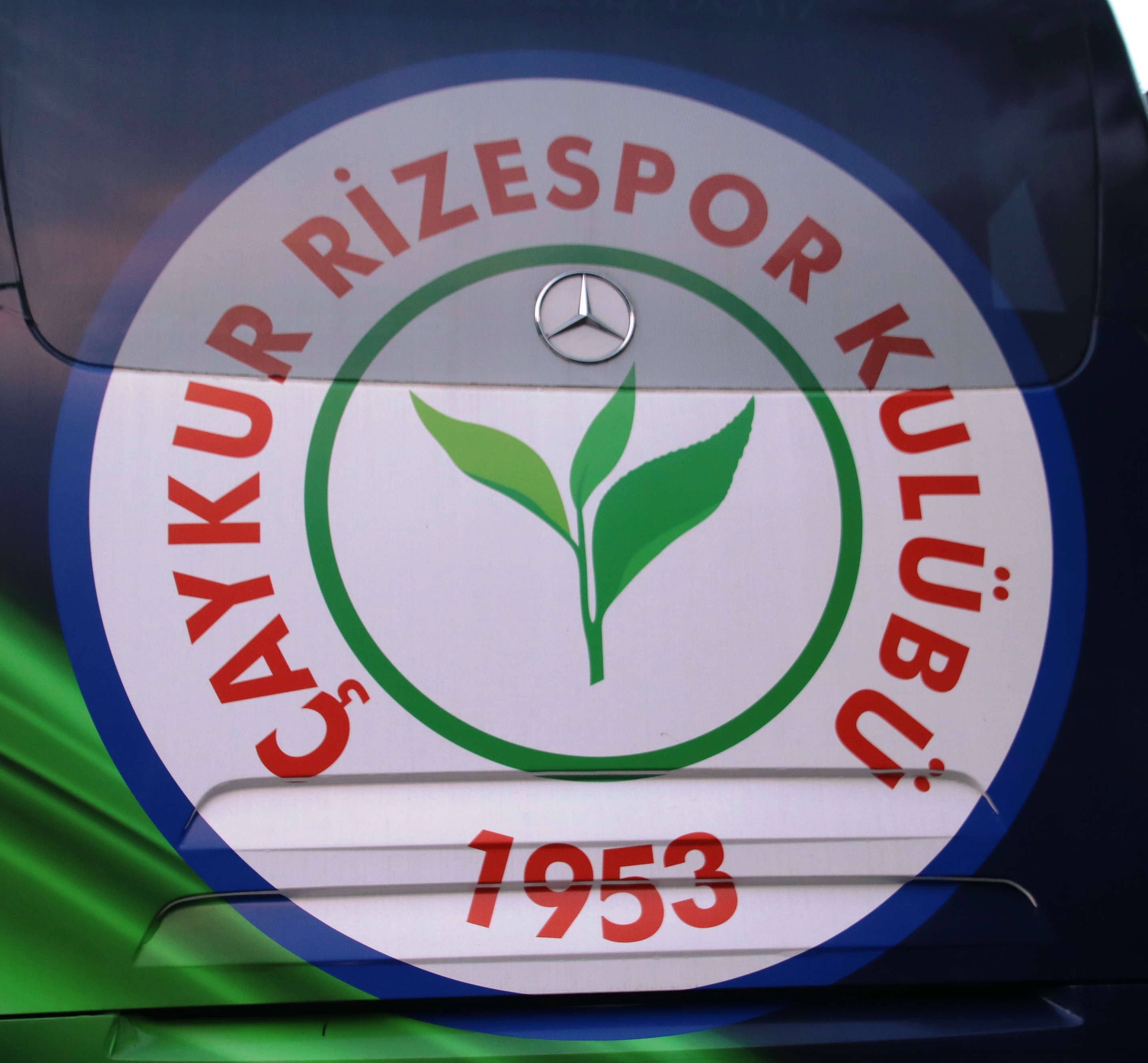 last preseasonmatch